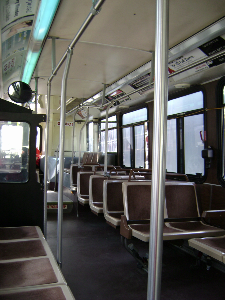 This image contains small advertisements that are visible on every B.C. Transit Bus, which are quite small, even under high resolution.